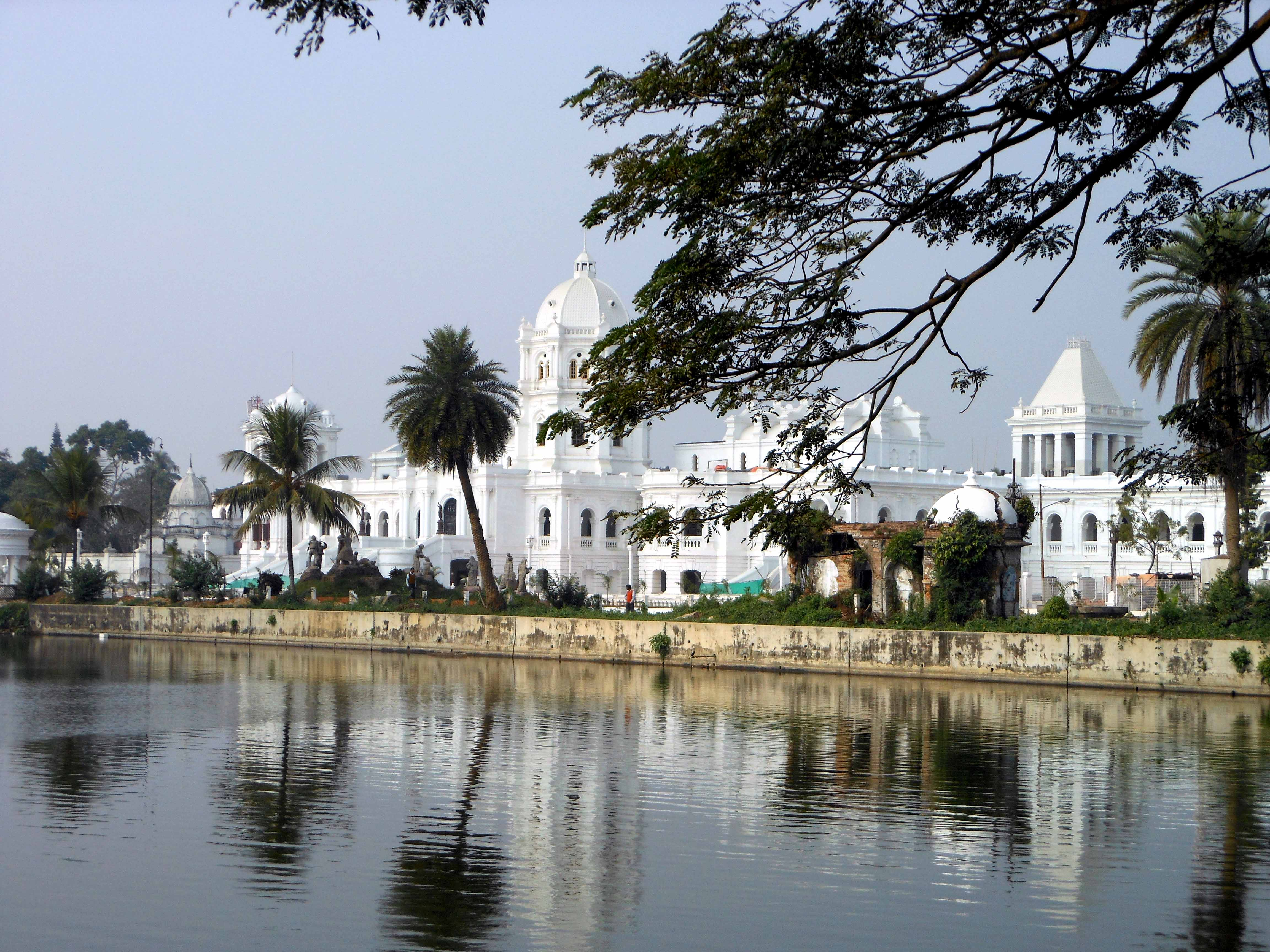 Ujjayanta Palace as seen from the Rajbari Lakes